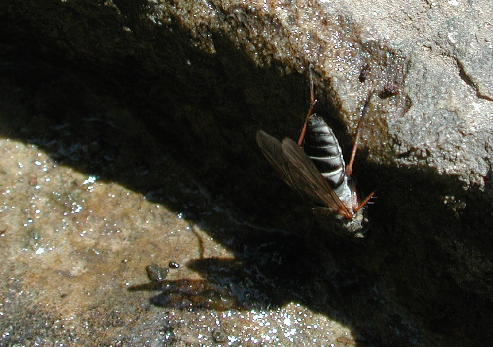 Therevidae, Anabarhynchus spec., Carnarvon National Park, Queensland, Australia